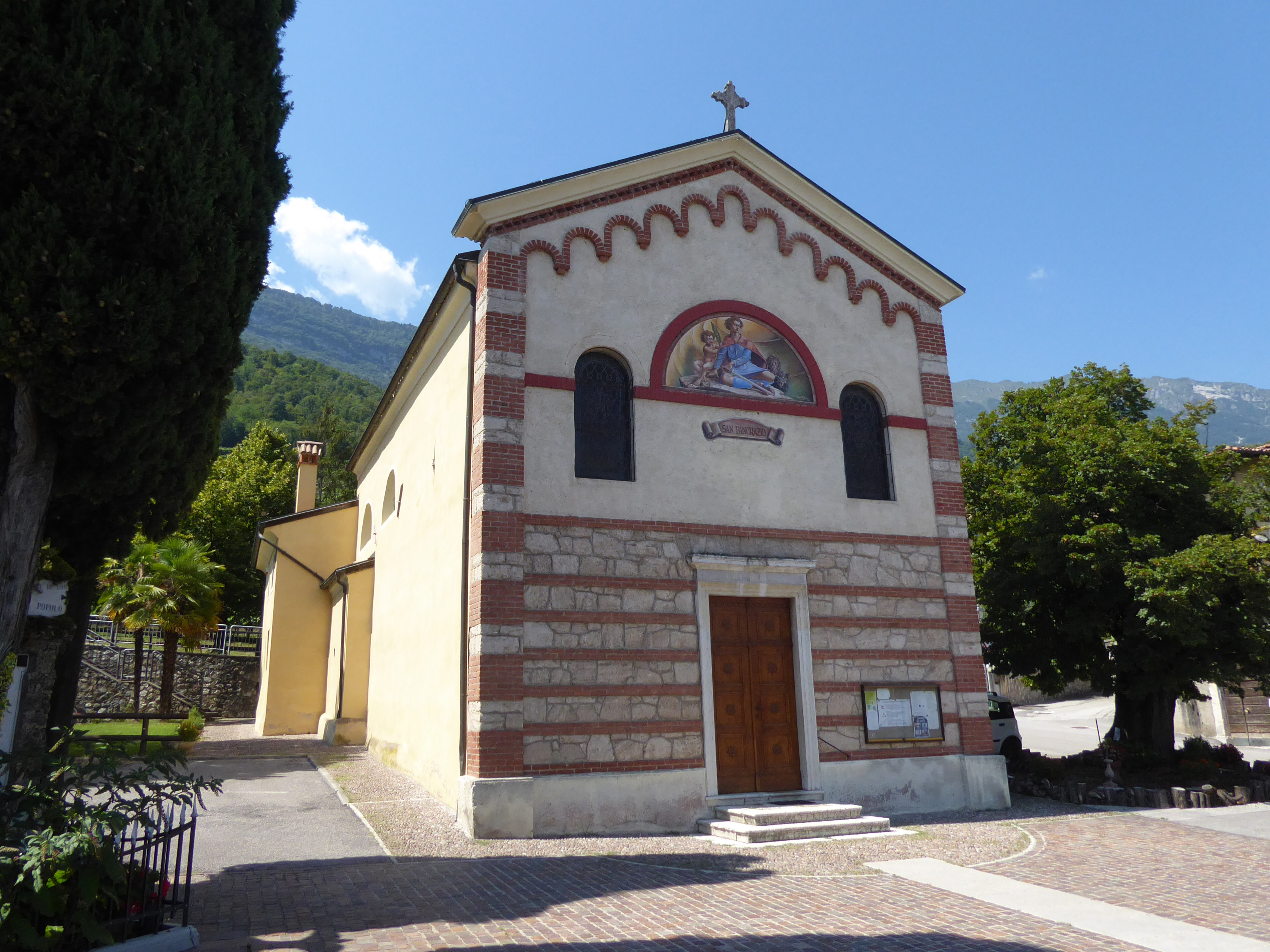 Marano (Isera, Trentino, Italy) - Saint Pancras church